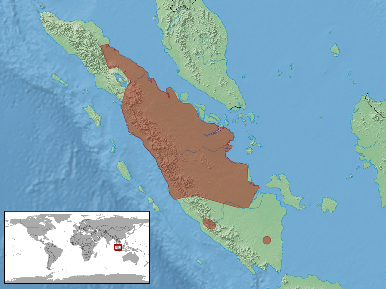 geographic distribution of Calamaria sumatrana (Native: Indonesia (Sumatera))